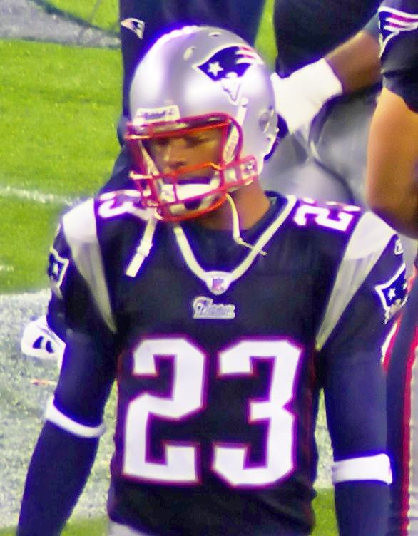 New England Patriots players on sideline during preseason game vs. Tennessee Titans. See w:2007 New England Patriots season#Opening_training_camp_roster